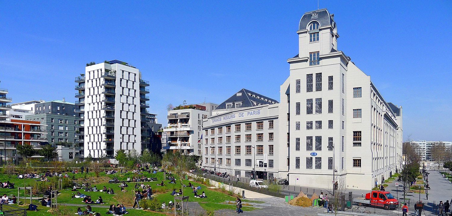 Grands Moulins de Paris - Paris